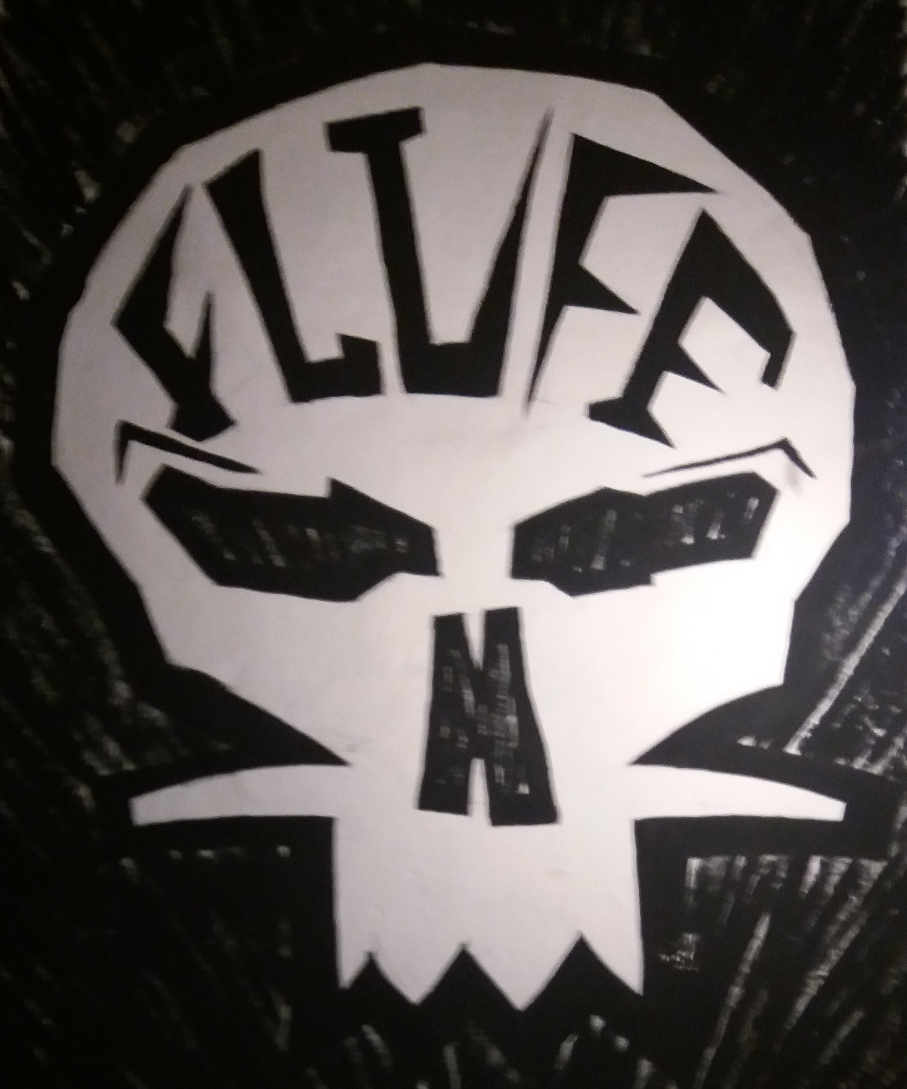 Fluff Fest logo as seen in a Fluff17 wall painting at Underdogs' Ballroom & Bar in Smíchov, Prague. The venue is run by the festival's organizers.